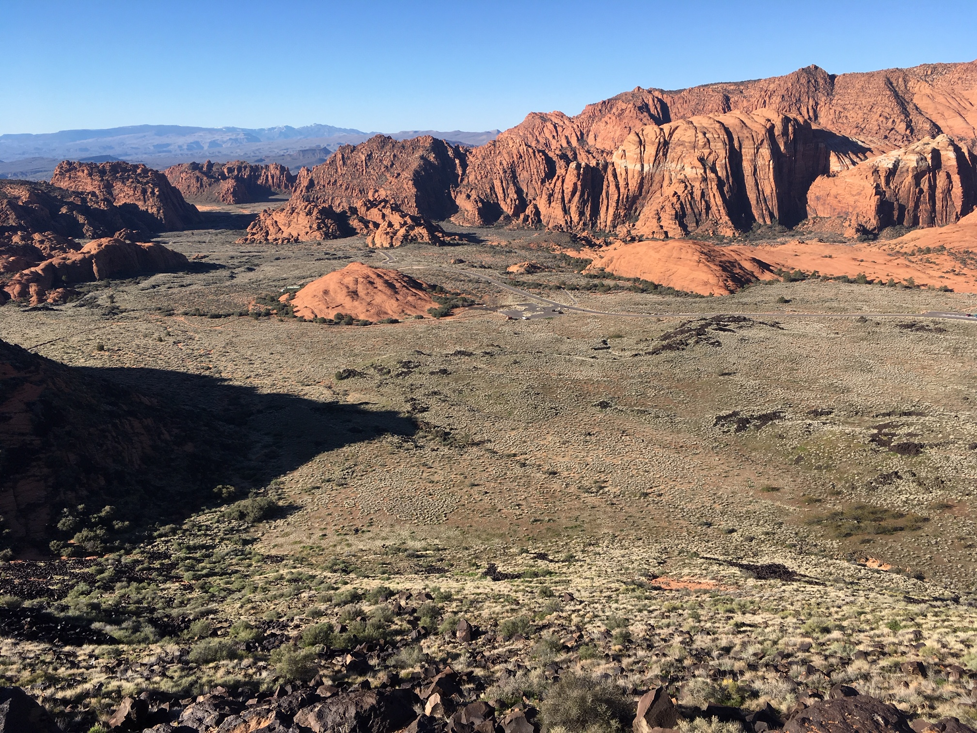 Snow Canyon, Utah, in March 2019.